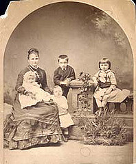 Writer Kate Chopin and her sons Frederick, George, Jean, and Oscar, in New Orleans, 1877.